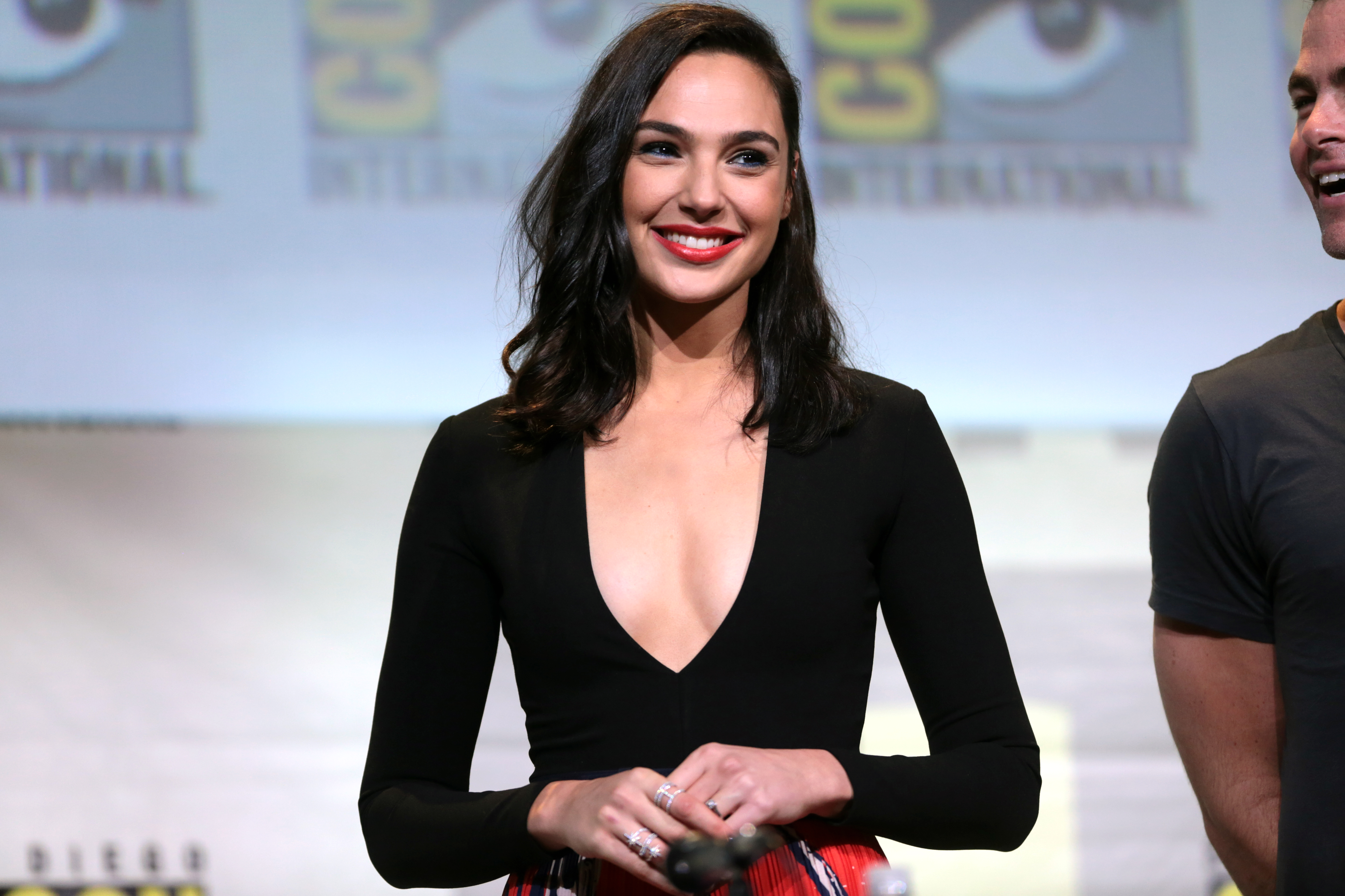 Gal Gadot speaking at the 2016 San Diego Comic Con International, for "Wonder Woman", at the San Diego Convention Center in San Diego, California.